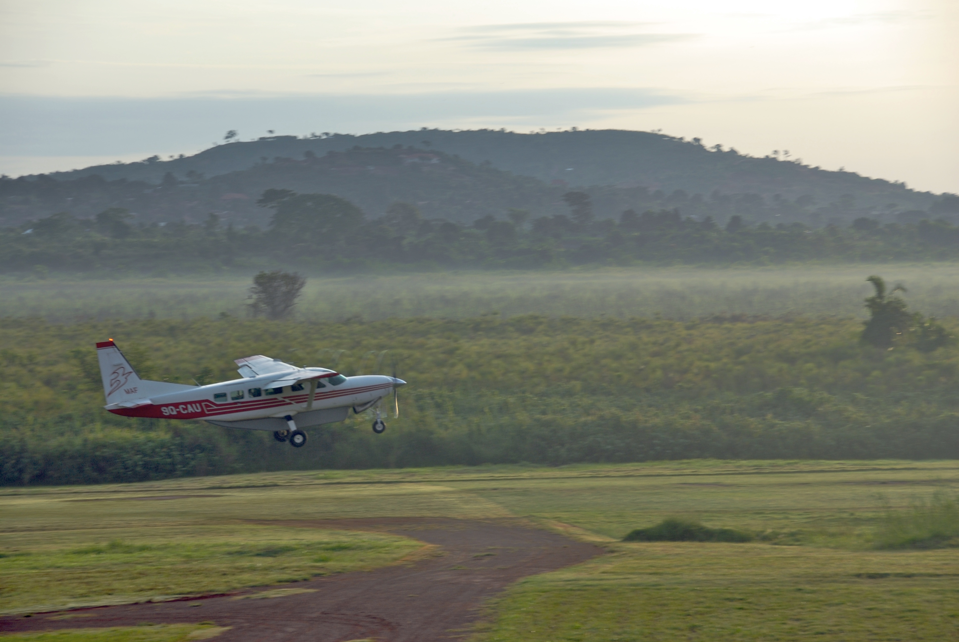 Aircraft and runway at Kajjansi Airport, MAF Uganda. Located in Kajjansi, Wakiso District.